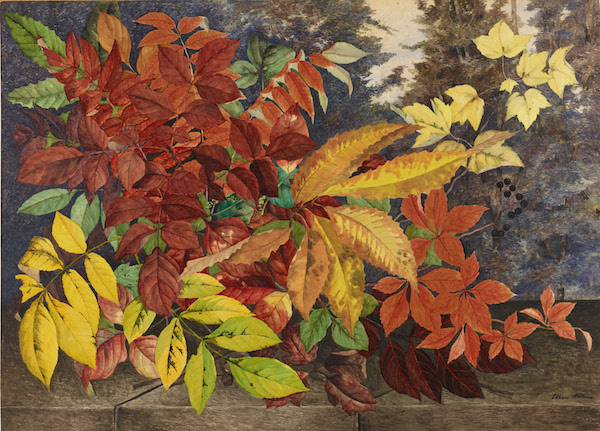 Autumn Leaves by Ellen Robbins (1828– 1905), c. 1870. Signed “Ellen Robbins” at lower right. Watercolor with selectively applied glaze over graphite on wove paper, 21 1⁄2 by 29 5⁄8 inches. Philadelphia Museum of Art